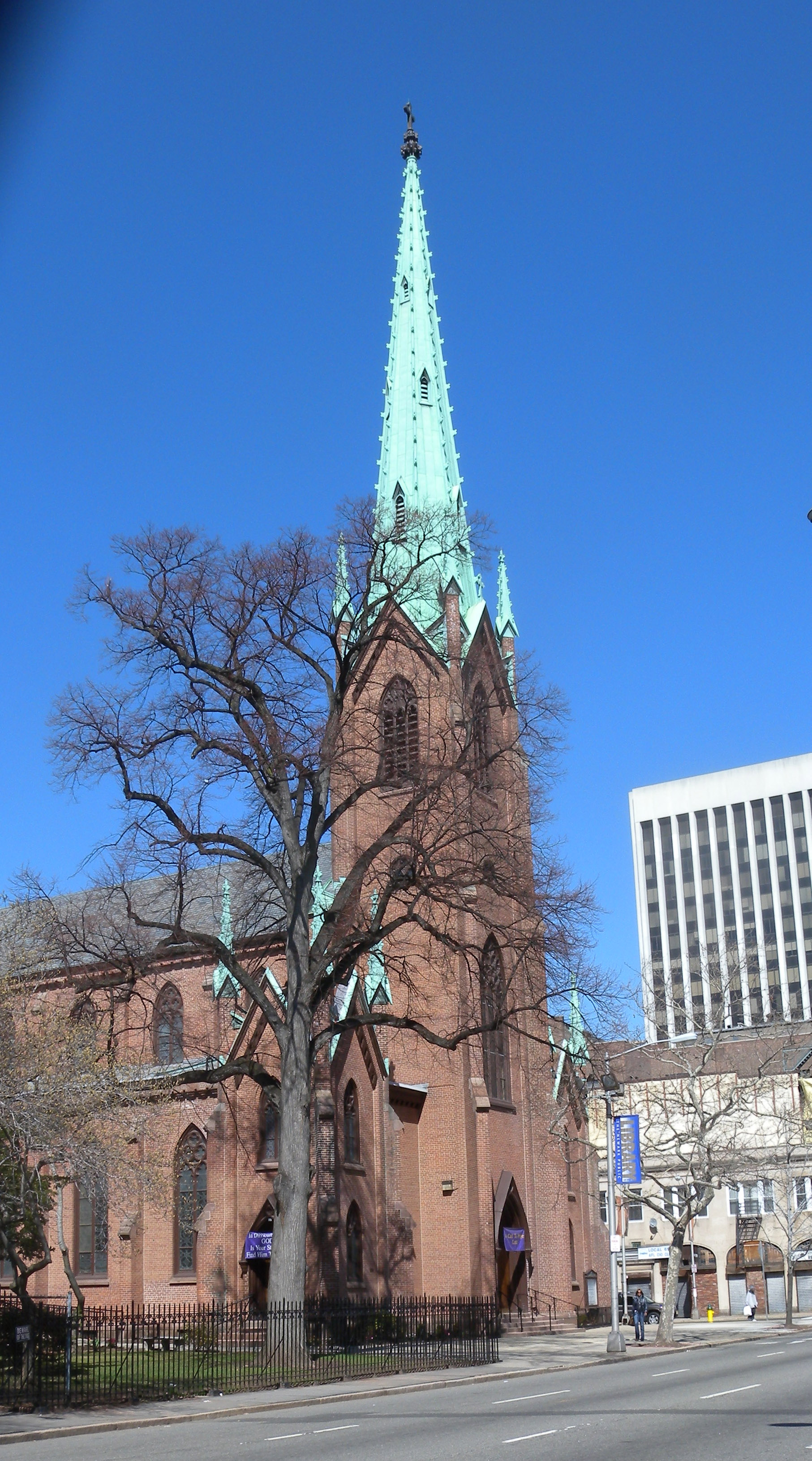 Looking north at Pro-Cathedral of Saint Patrick in Newark on a sunny midday.